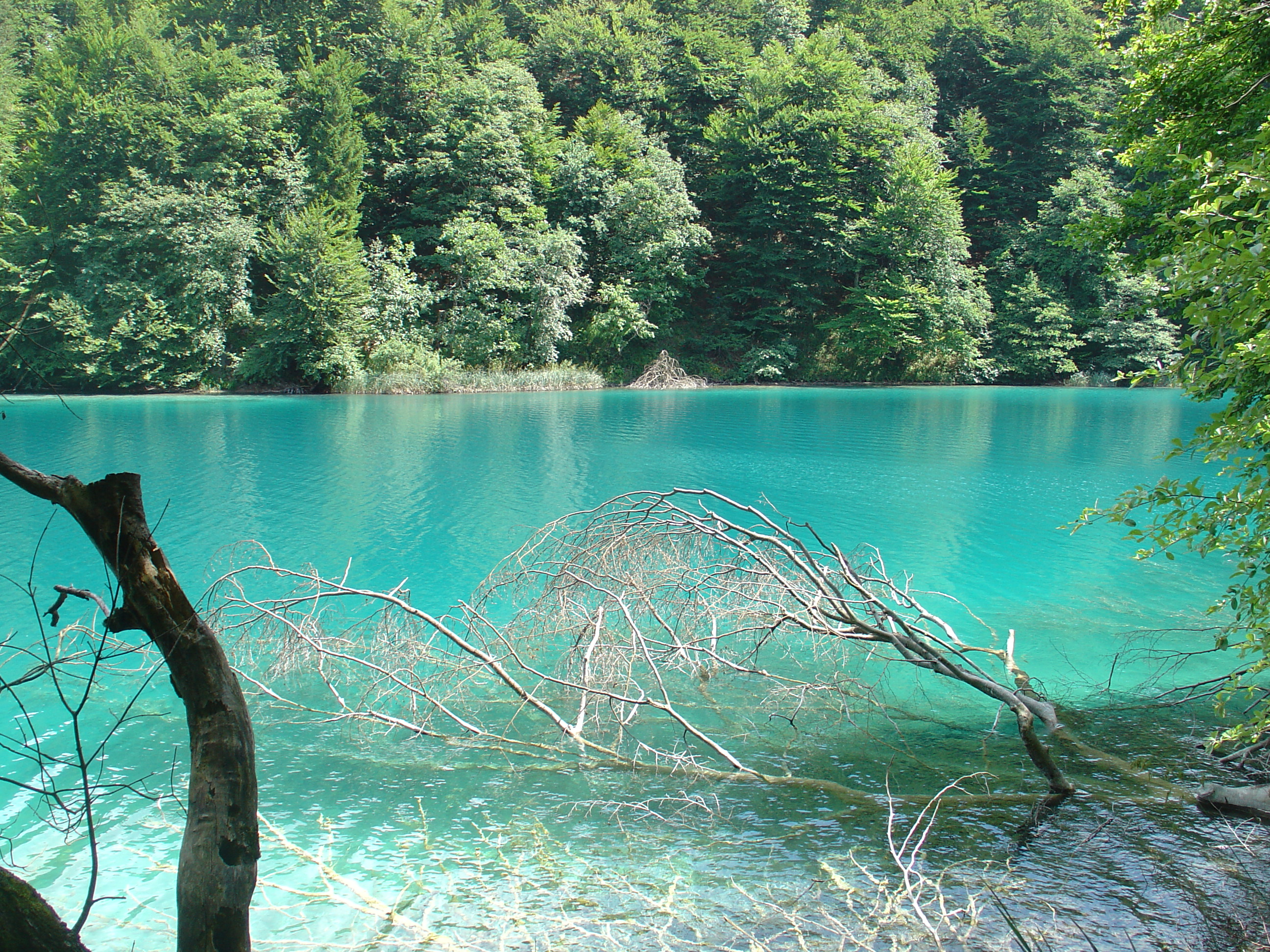 A Plitvice lake in the sun, along the unpaved route. Picture taken in July 2008.